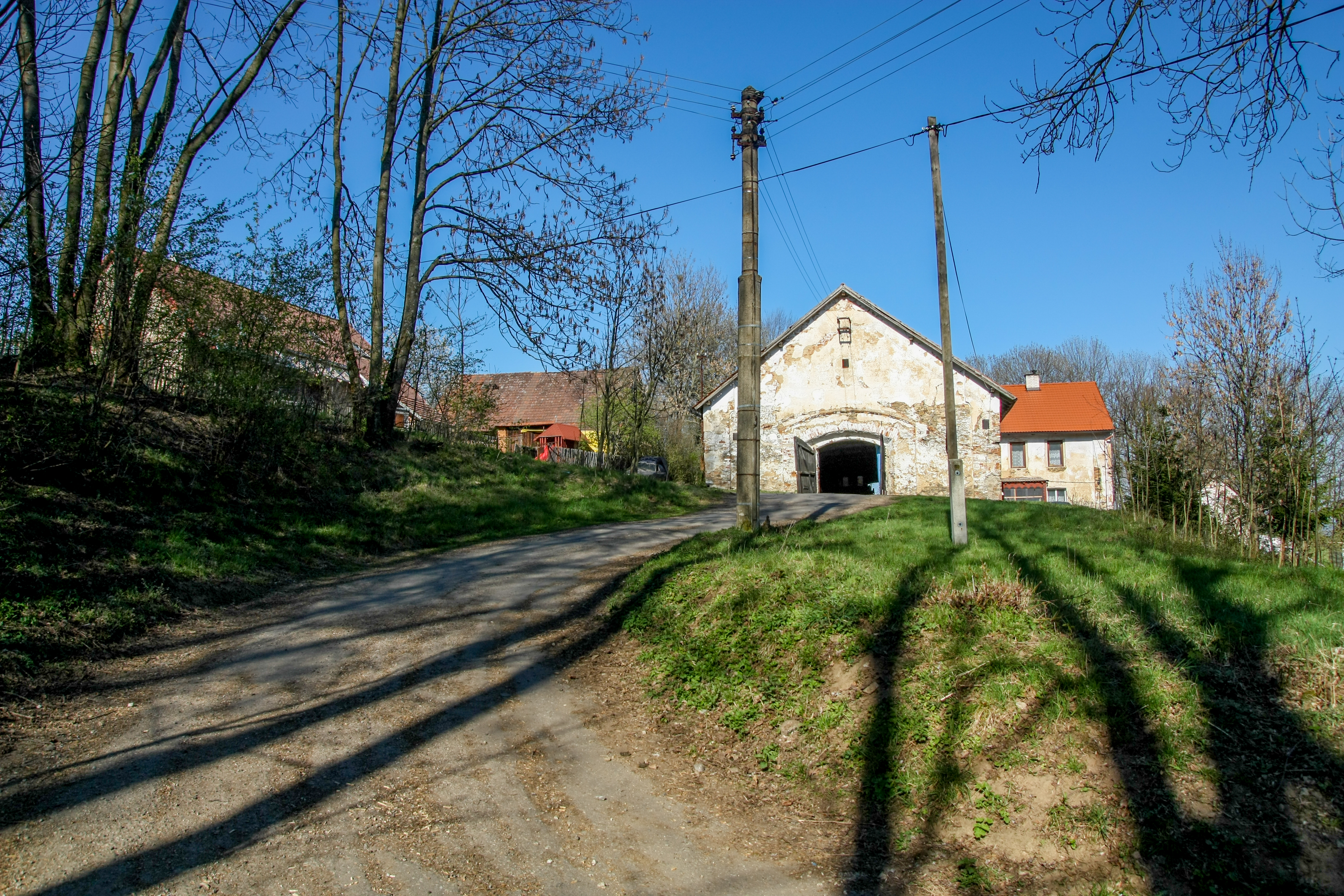 House in municipality Reksyně, Benešov District, Central Bohemian Region, Czechia